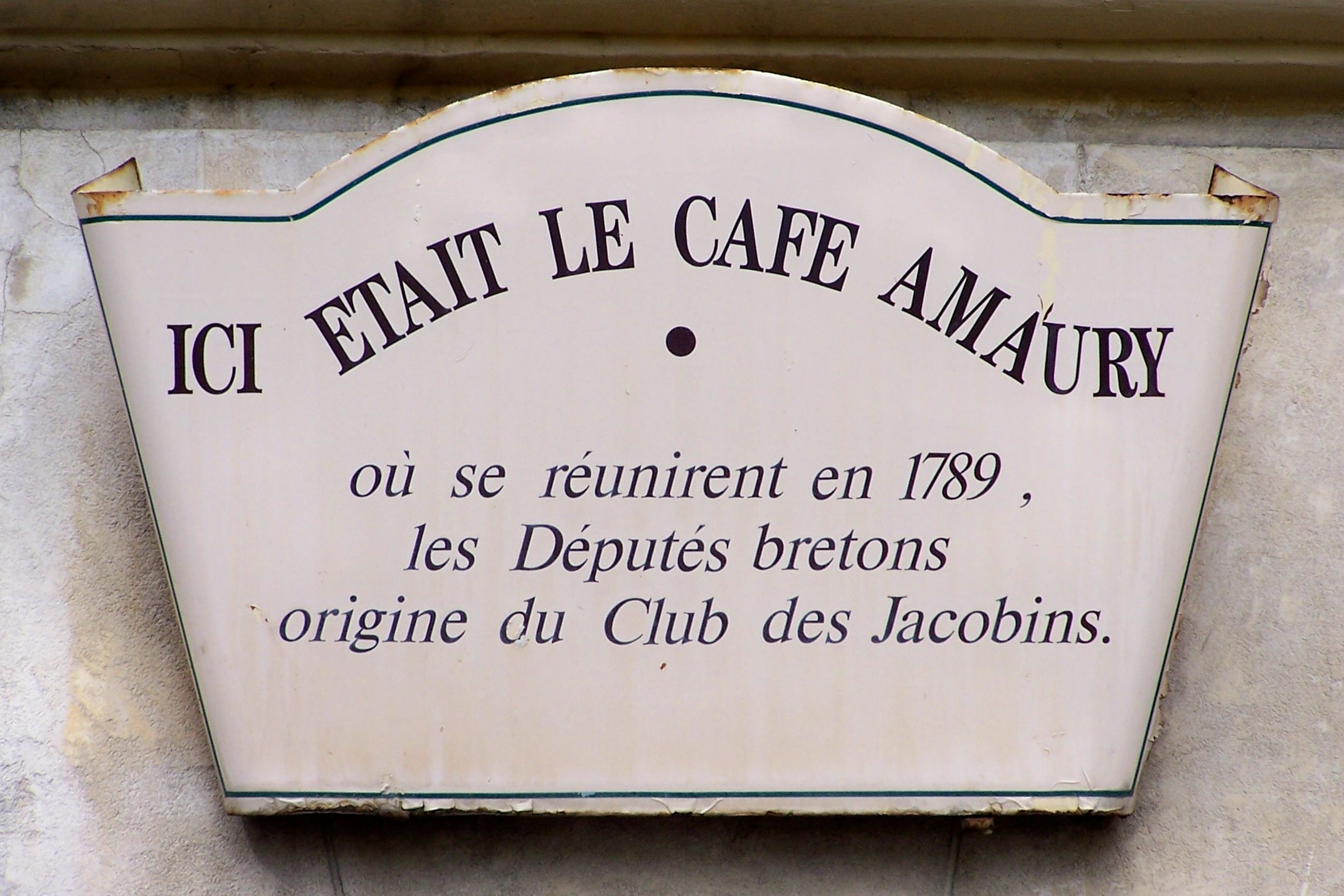 Information notice about the café Amaury in Versailles (Yvelines, France)